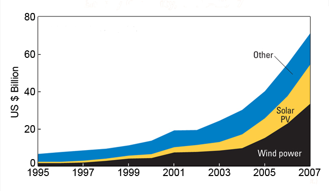 Past clean energy growth 1995-2007. Based on information contained in REN21 (2007) Global Status Report.